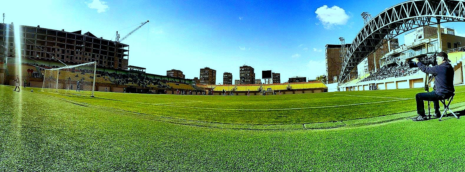 Mika stadium 12 April 2015, Yerevan